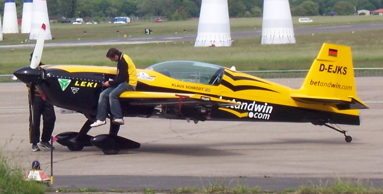 Aerobatic monoplane Extra 300S, Klaus Schrodt Germany, Red Bull Air Race 2006 Berlin Tempelhof